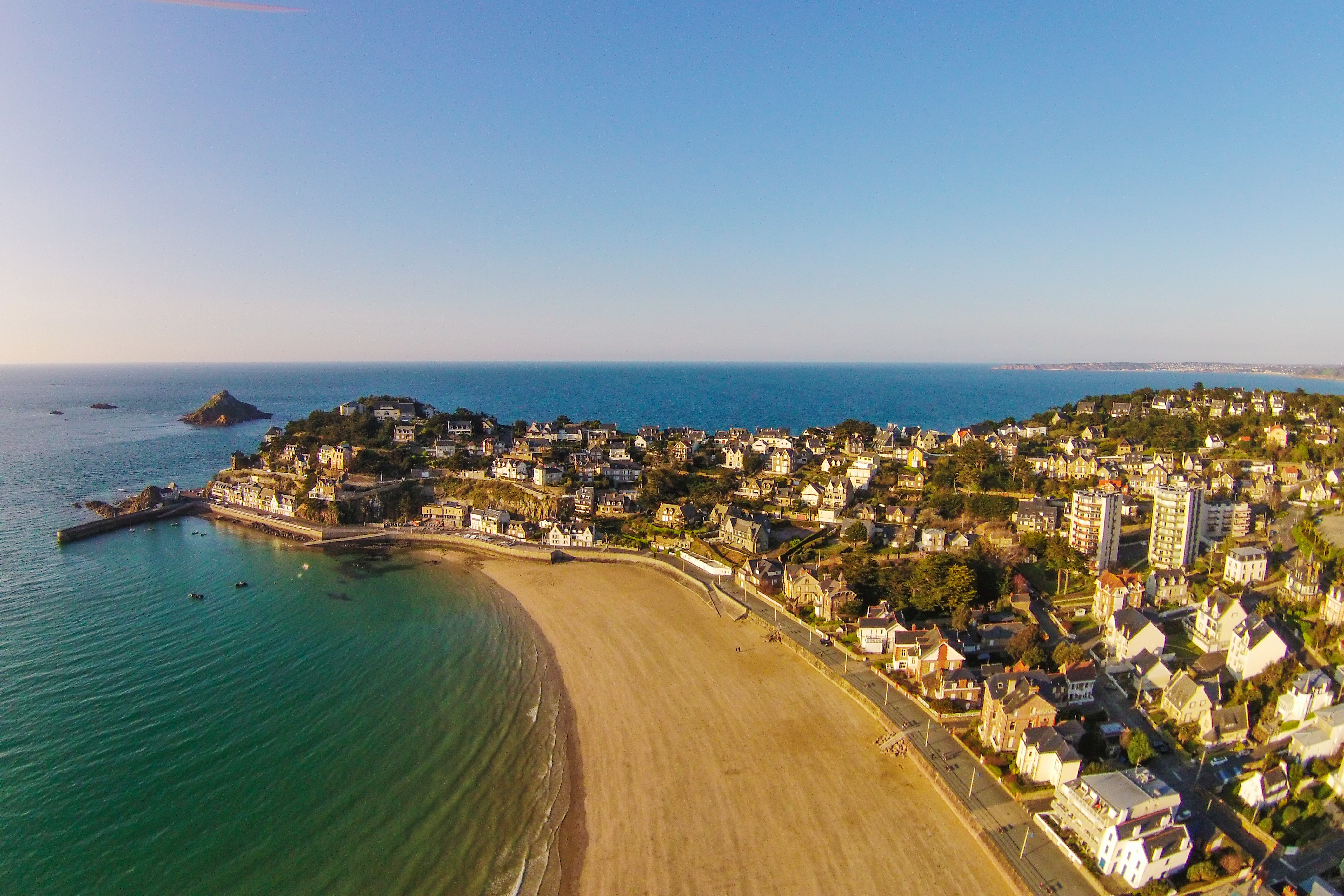 Port de Piégu and view towards Erquy above the hill.